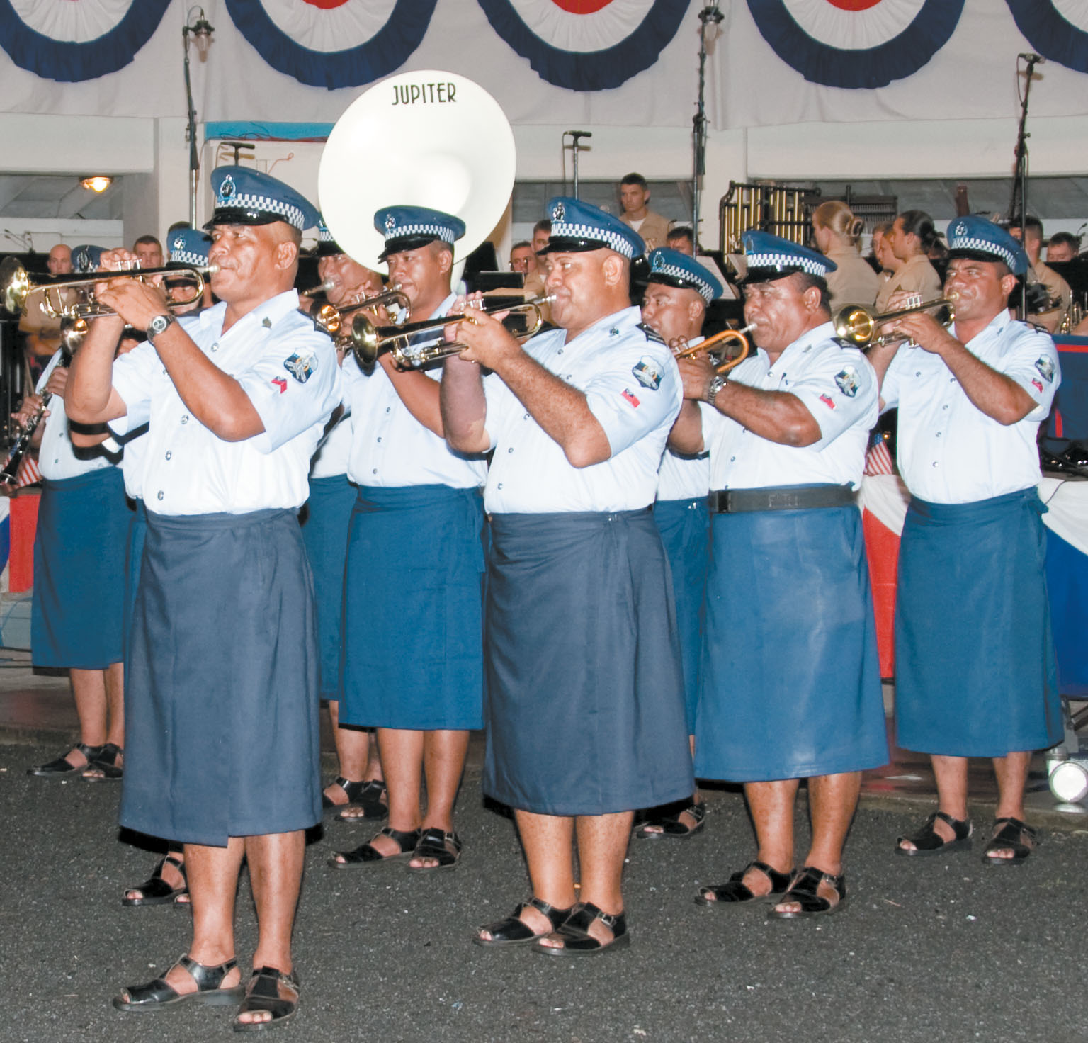 The Royal Samoan Police Band performed American Samoa’s anthem before the United States Marine Forces Pacific Band played at a public concert in Fagatogo April 14. The concert kicked off the festivities for the nation’s 110th Flag Day. “This concert is a big deal here,” said Staff Sgt. Junior Fuimaono, a Marine Corps recruiter in American Samoa. “There are many prior service members here on the island and they want to hear something more professional than what we normally hear.”